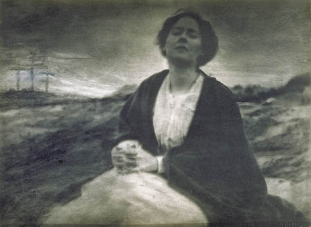 The_Heritage_of_Motherhood